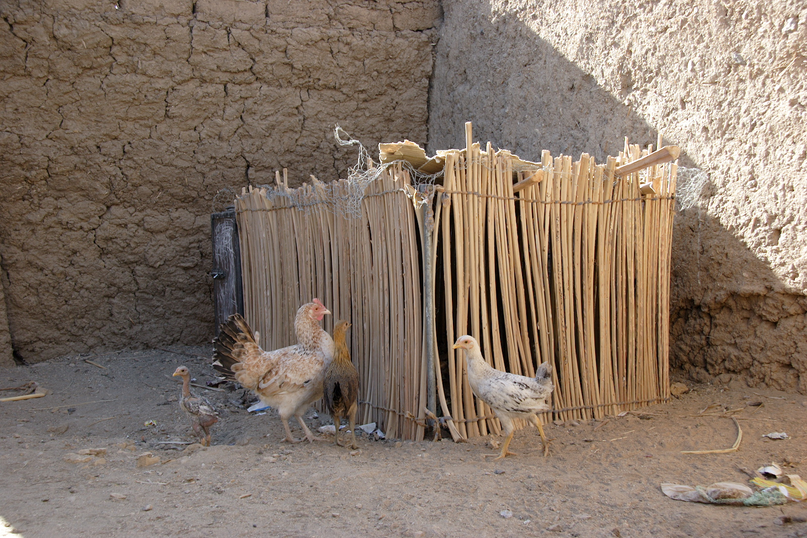 Qafas - chicken hutch from Garidah, Shiri Island, Dar al-Manasir, Northern Sudan (c) GFDL David Haberlah (Homepage of David Haberlah, ) Commons:Category:Sudan Commons:Category:Chicken Commons:Category:Chicken coop